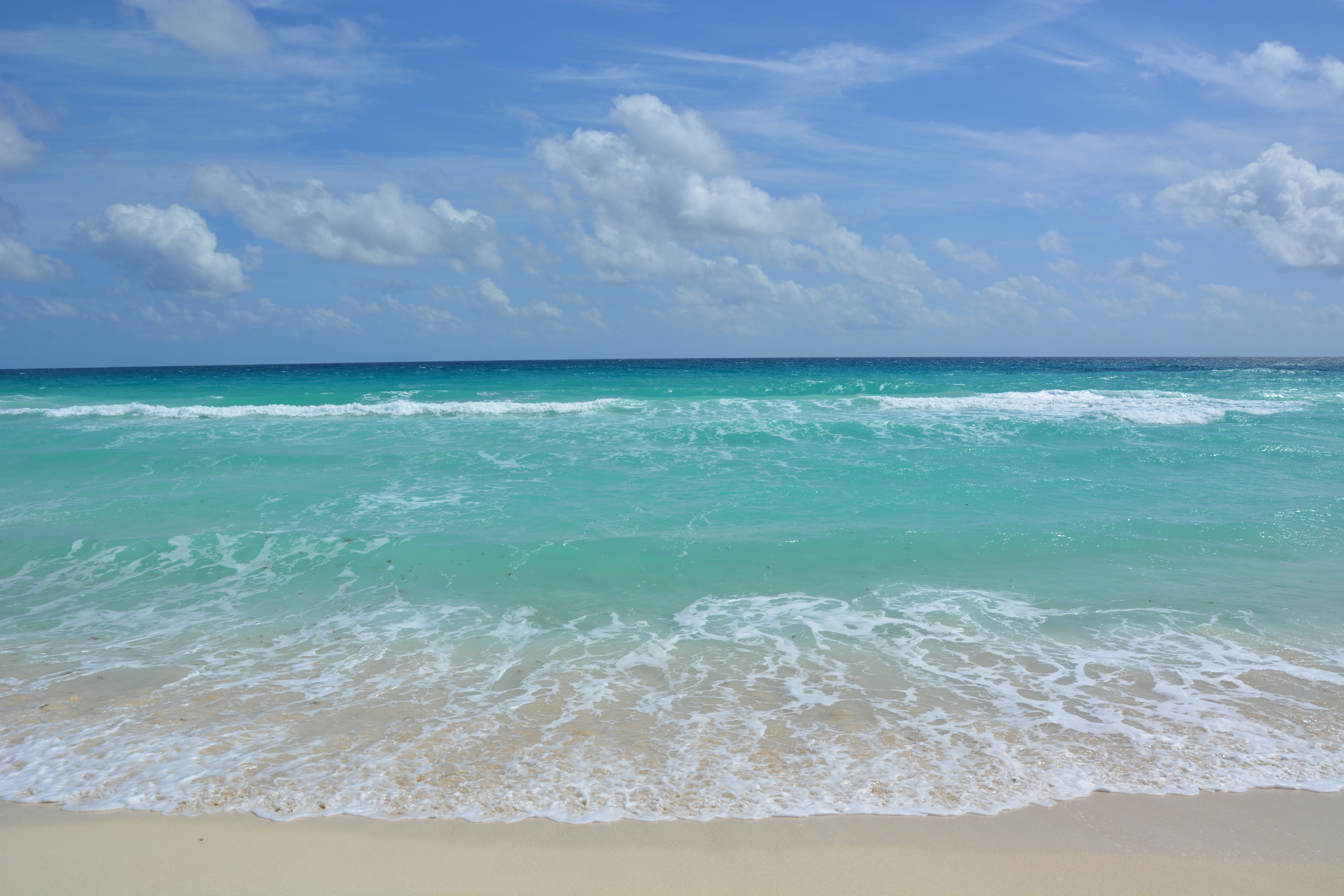 Beach of Cancun, along the Hotel zone